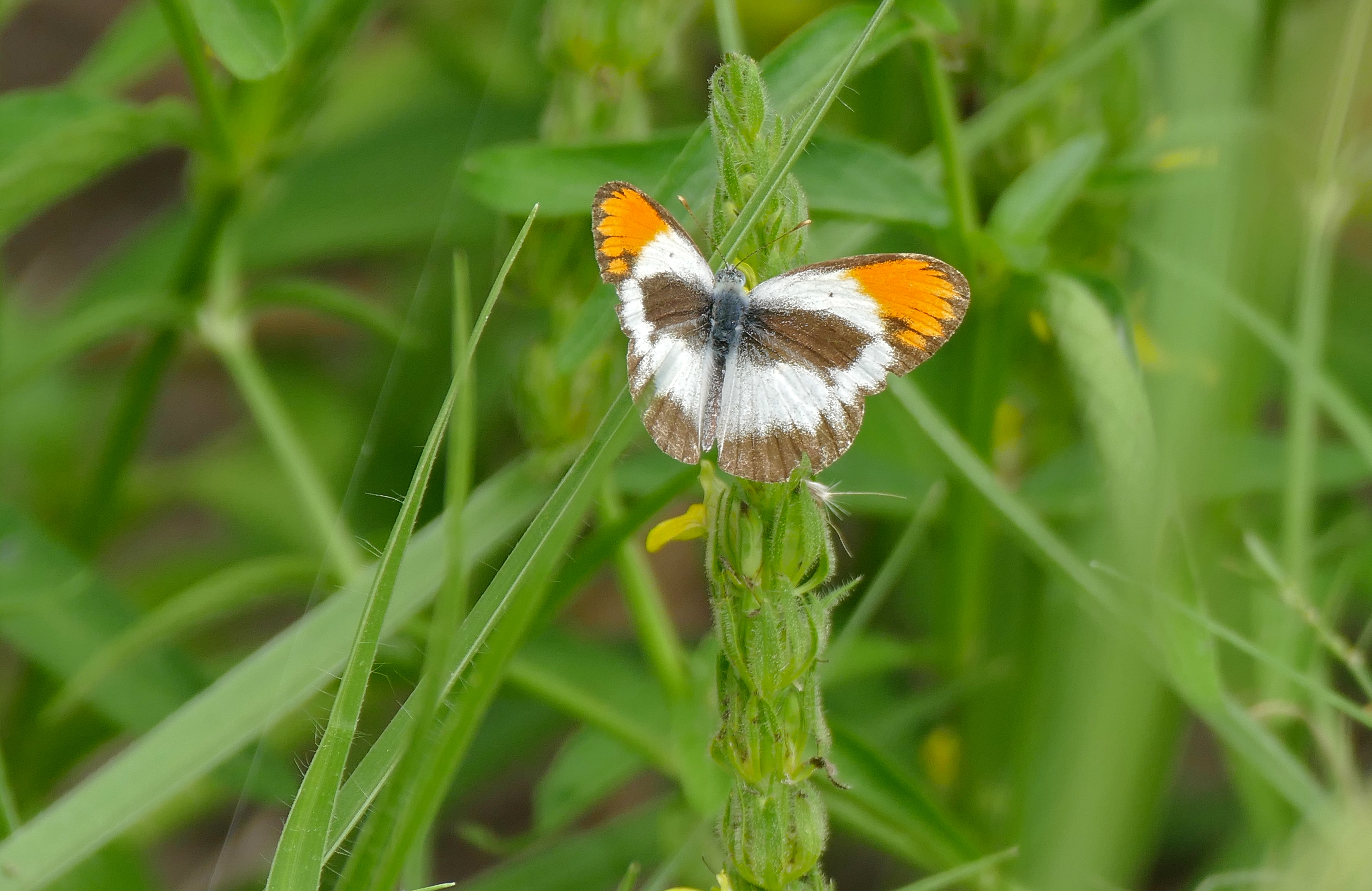 S106 Road East of Orpen, Kruger NP, SOUTH AFRICA